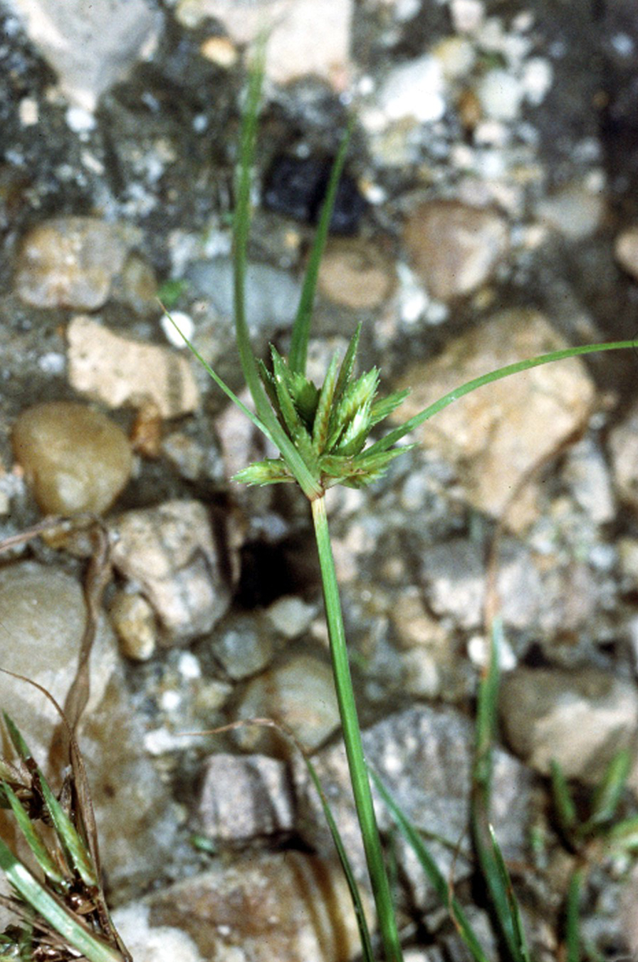 Cyperus compressus L. - poorland flatsedge